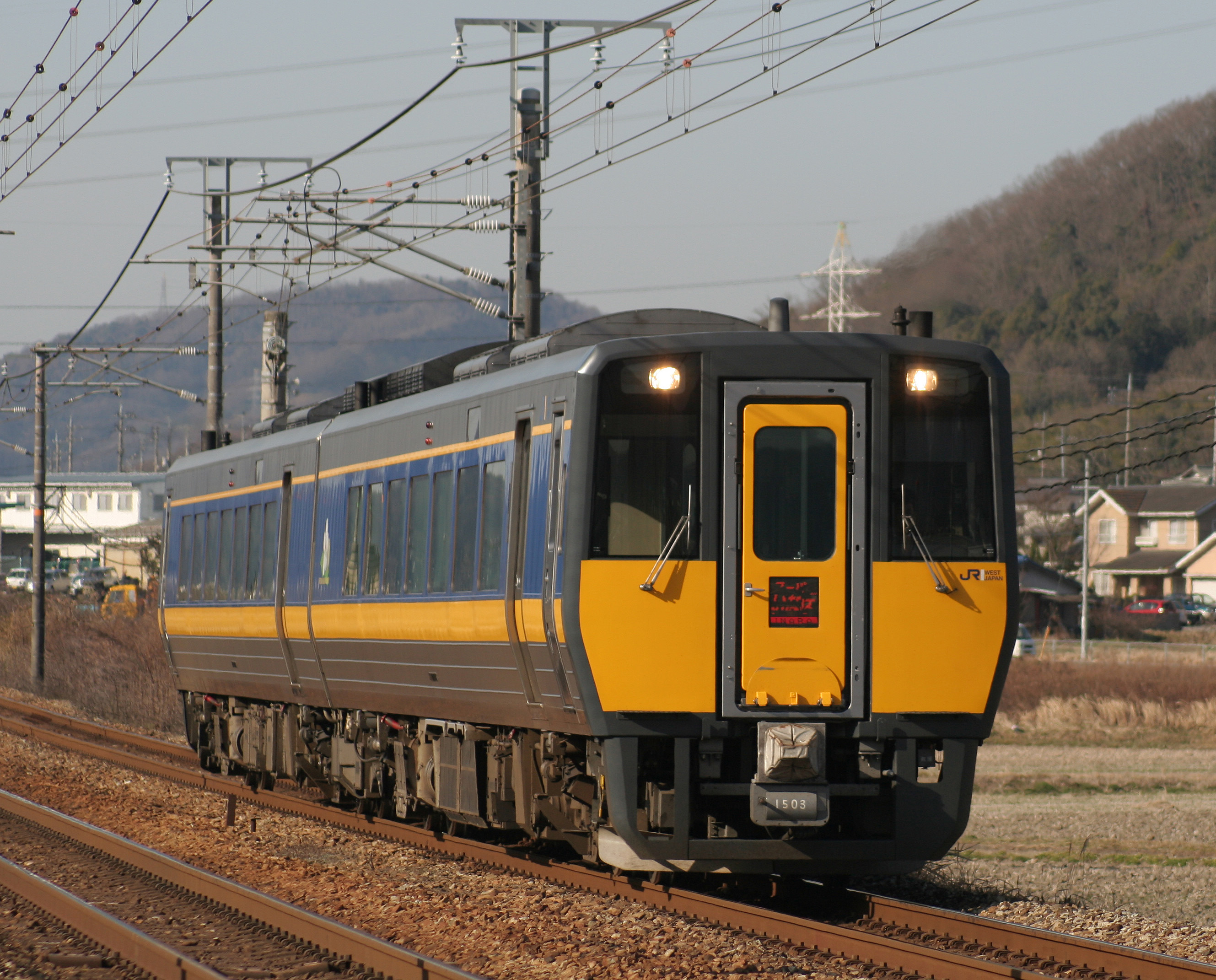 West Japan Railway DC kiha 187 series Limited Express Super Inaba Sanyo Line（seto - mantomi）